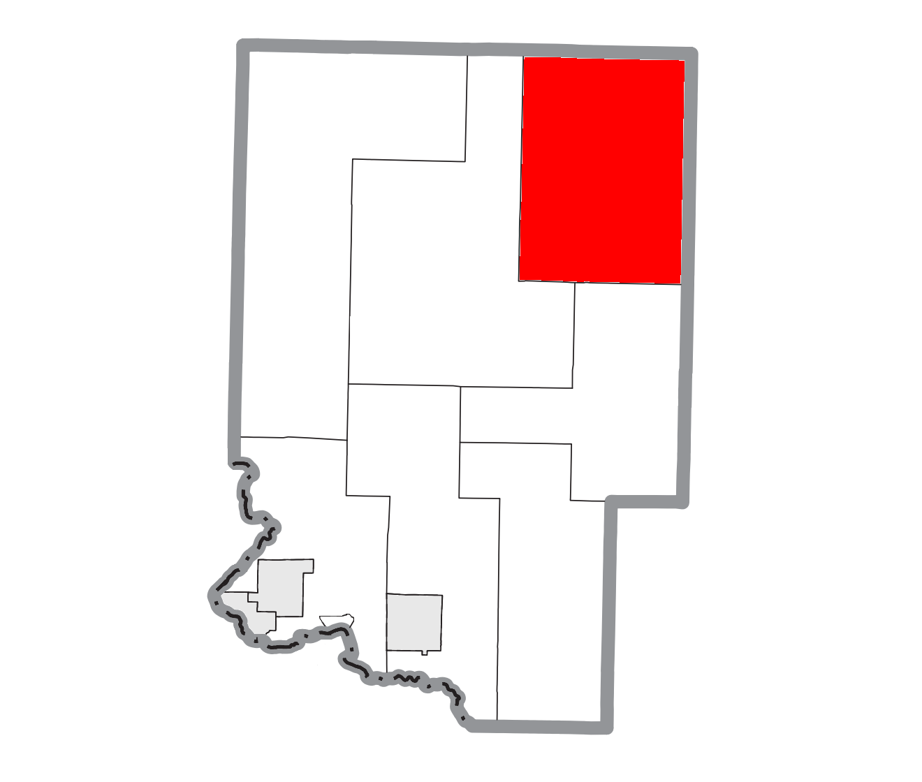 West Branch Township (Dickinson), MI